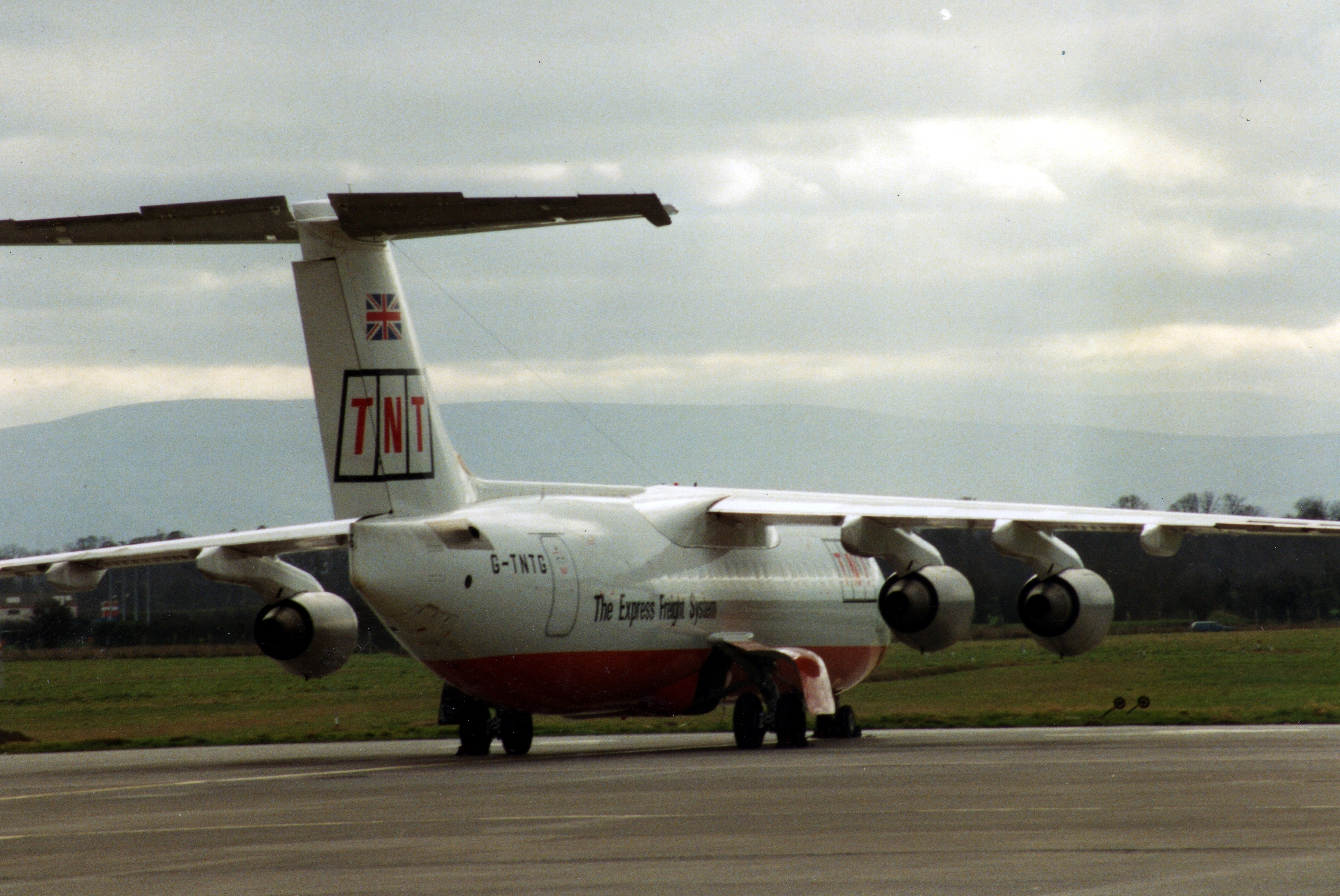 TNT Airways (G-TNTG) BAe 146-300 aircraft, Dublin Airport, Dublin, Republic of Ireland, February 1993